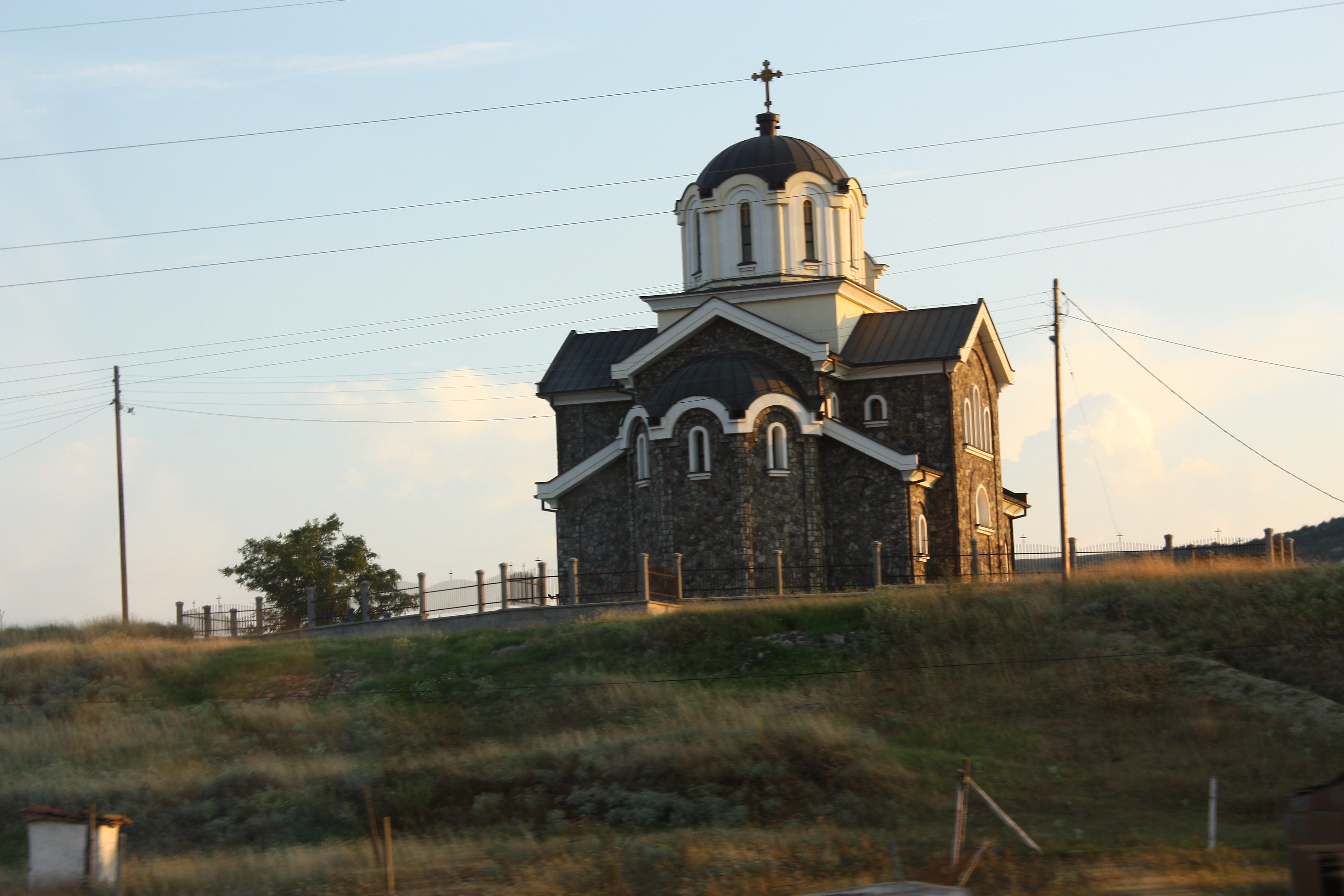 St. Elijah Church (Tri Češmi)